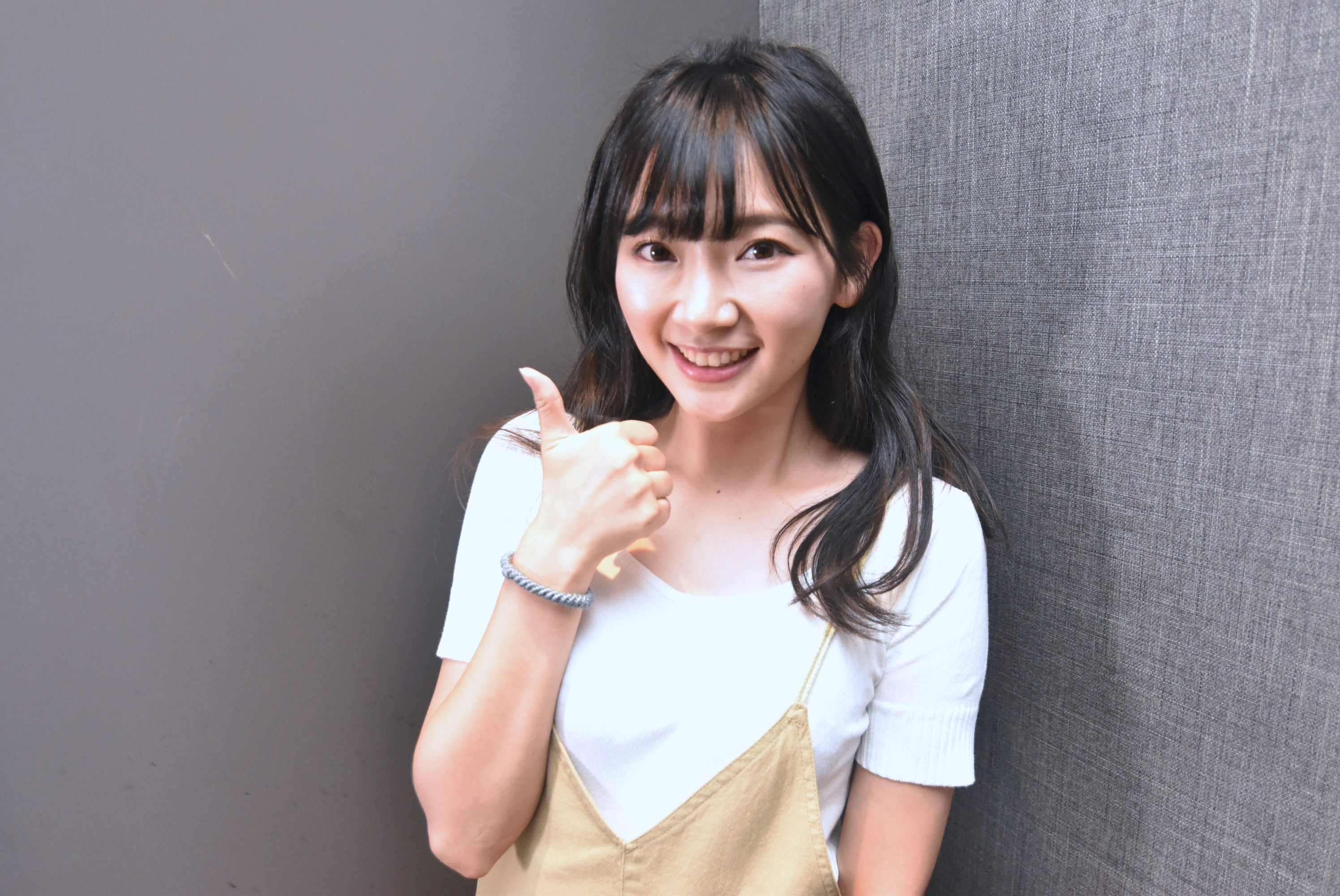 Yogurt Lin. Attention: the angle and the posture of this file are differet with